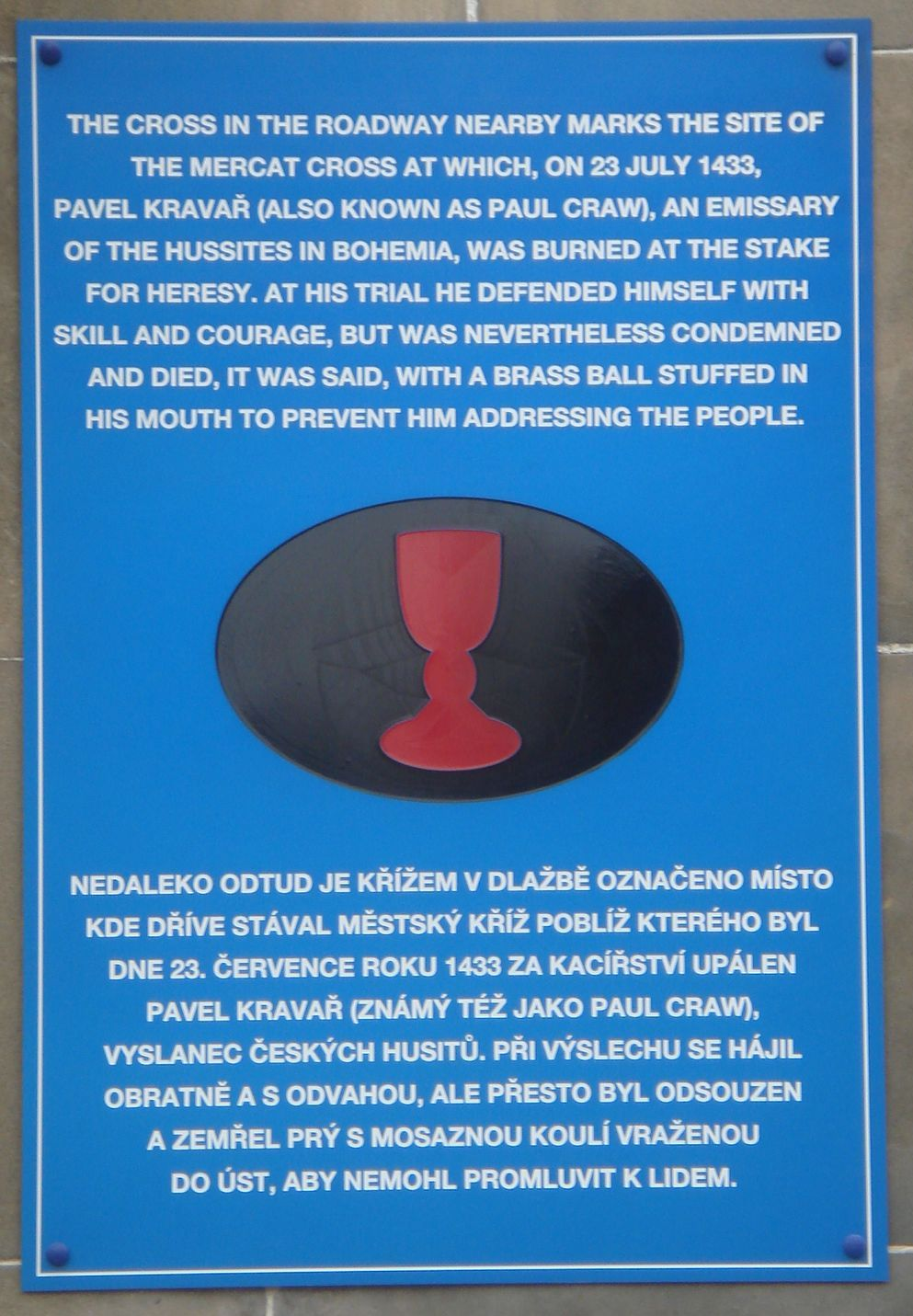 Memorial plaque, with inscription in English and Czech languages and a Hussite emblem, located in Market Street, St Andrews, Scotland, close to the probable place of execution of Pavel Kravař (also known as Paul Craw) on 23 July 1433.